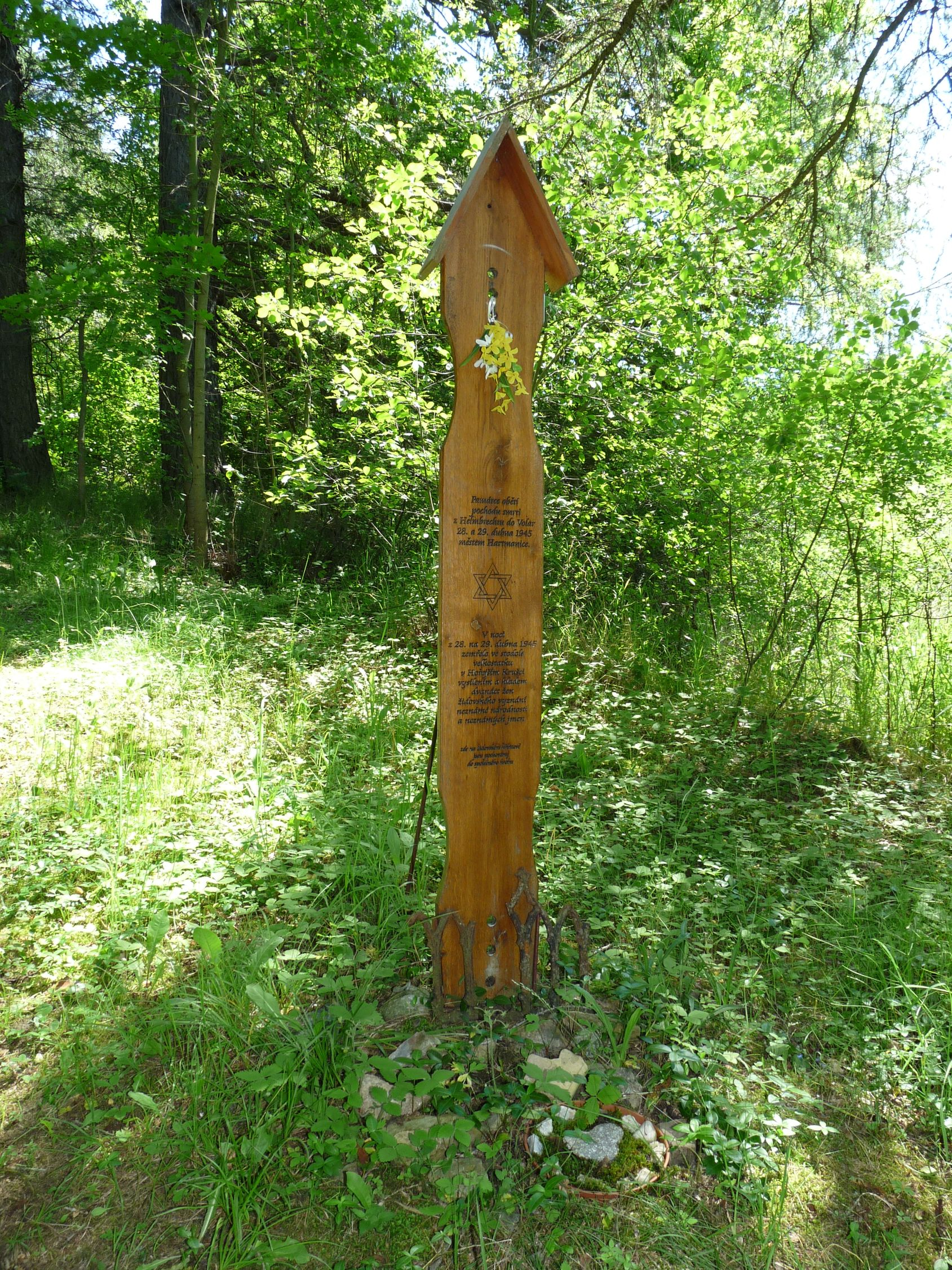 Jewish cemetery by the town of Hartmanice, Klatovy District, Plzeň Region, Czech Republic - memorial to the victims of the death march from Helmbrecht to Volary on 28 and 29 April 1945. Twelve Jewish women died from hunger and exhaustion in the farm barn in Hořejší Krušec and were buried in this cemetery in a mass grave.